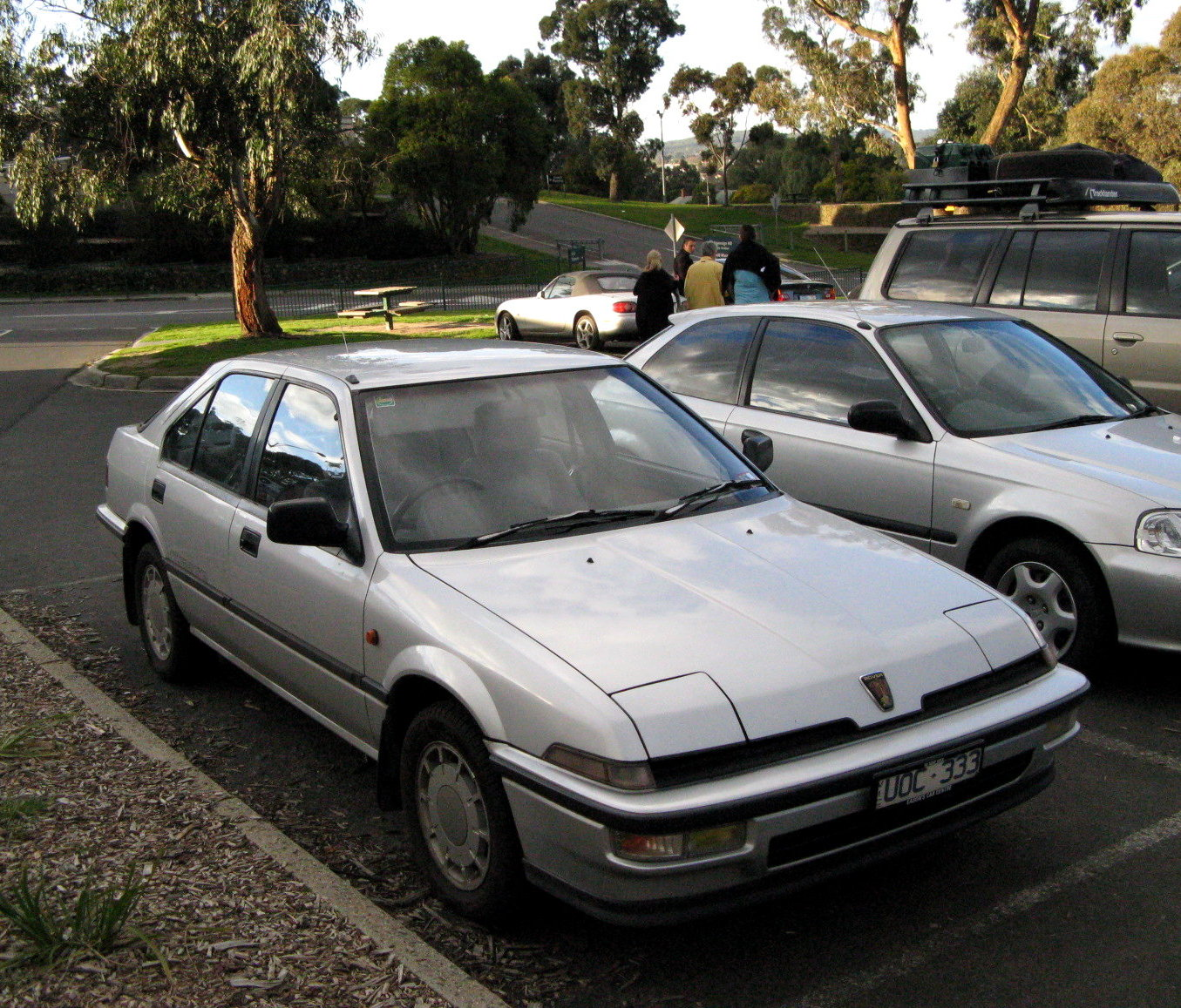 Rover 416i Vitesse